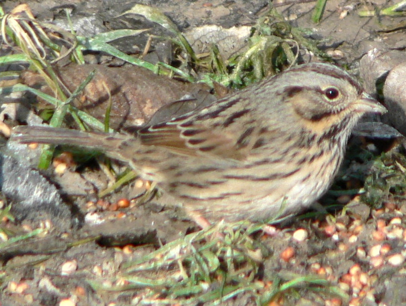 Lincoln's Sparrow